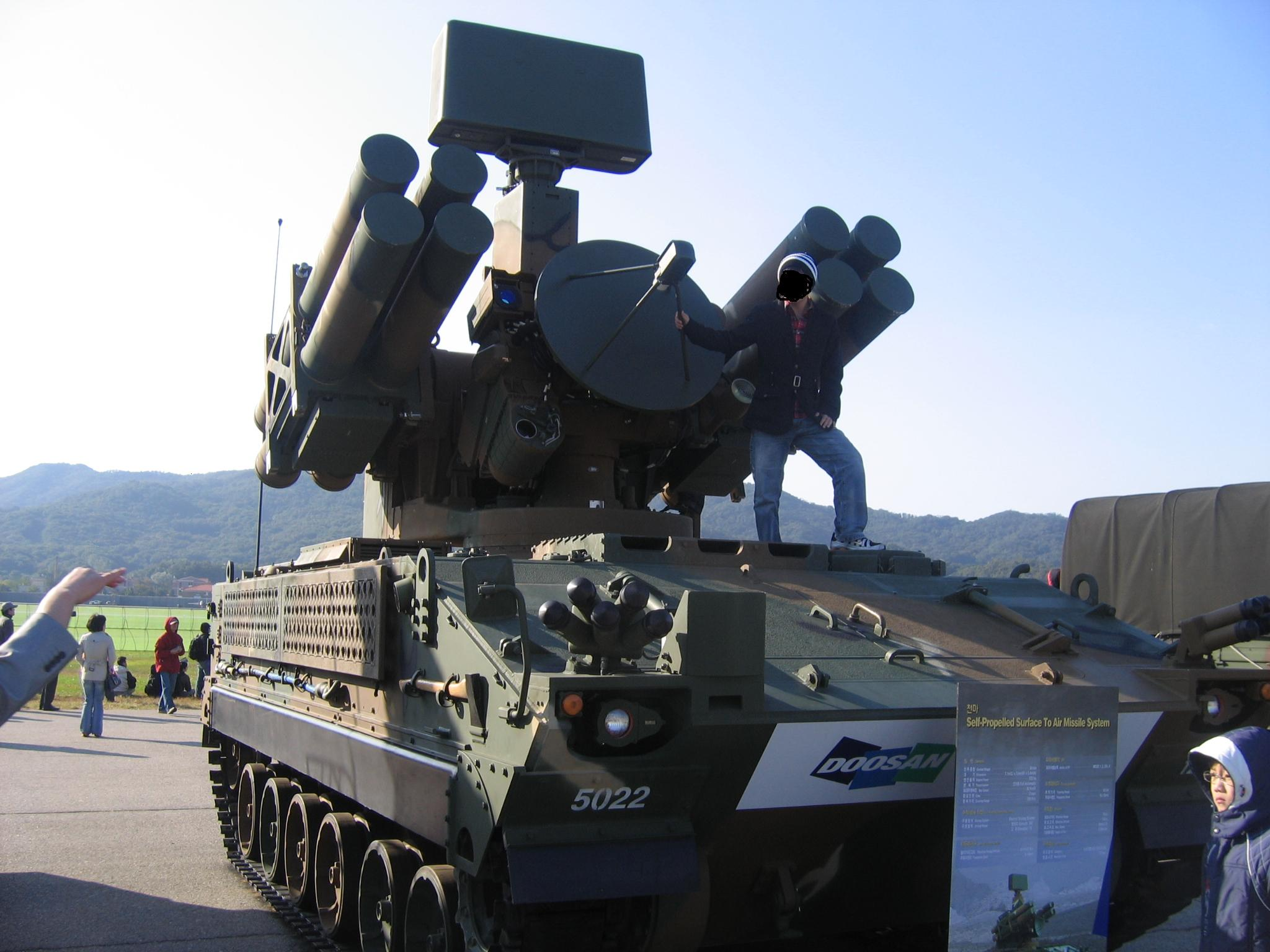 Chunma Self-propelled anti-aircraft Missile of South Korea which photoed by Rheo1905 in 2007 Seoul Air Show